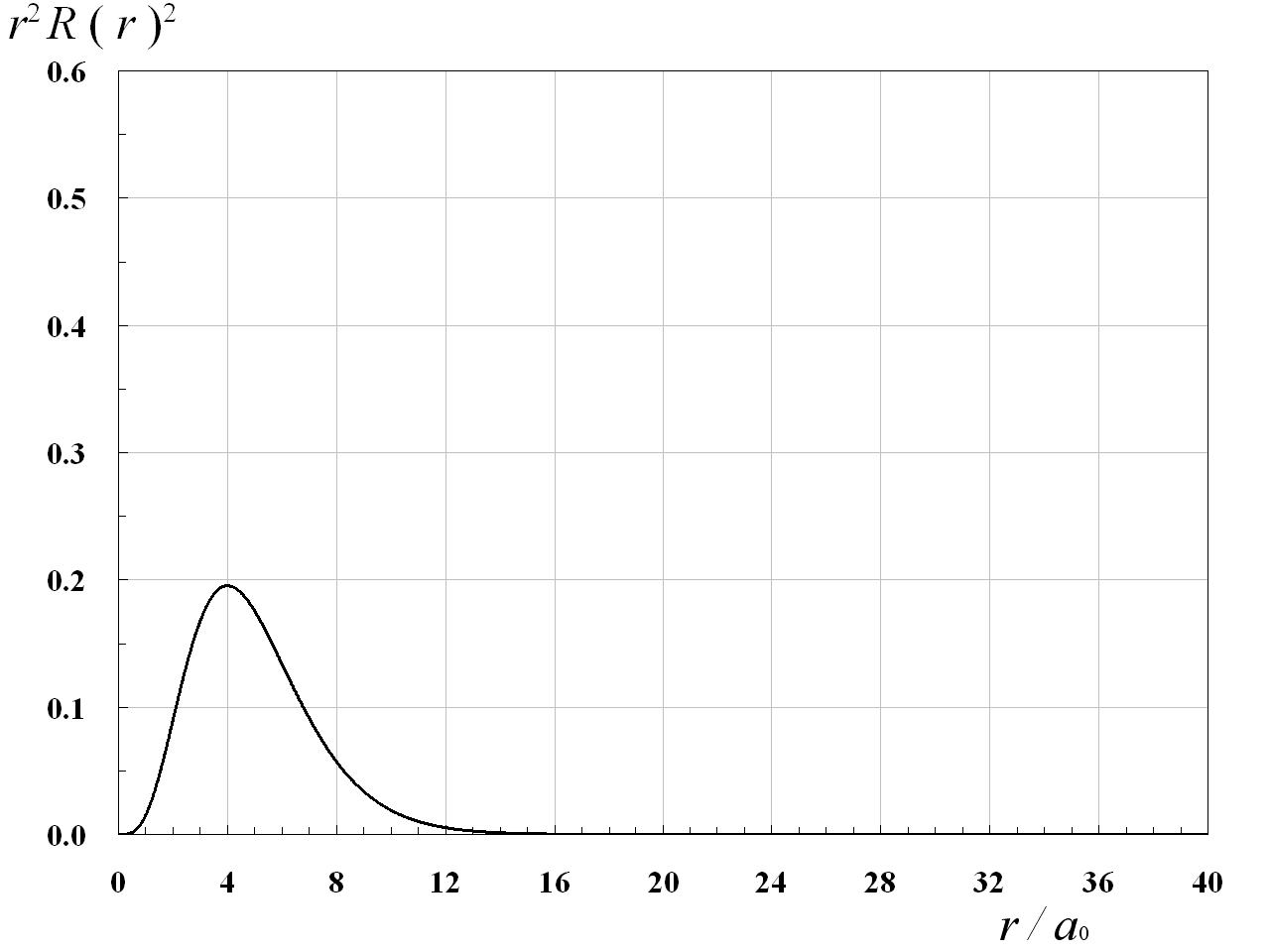 Radial distribution in 2p orbital